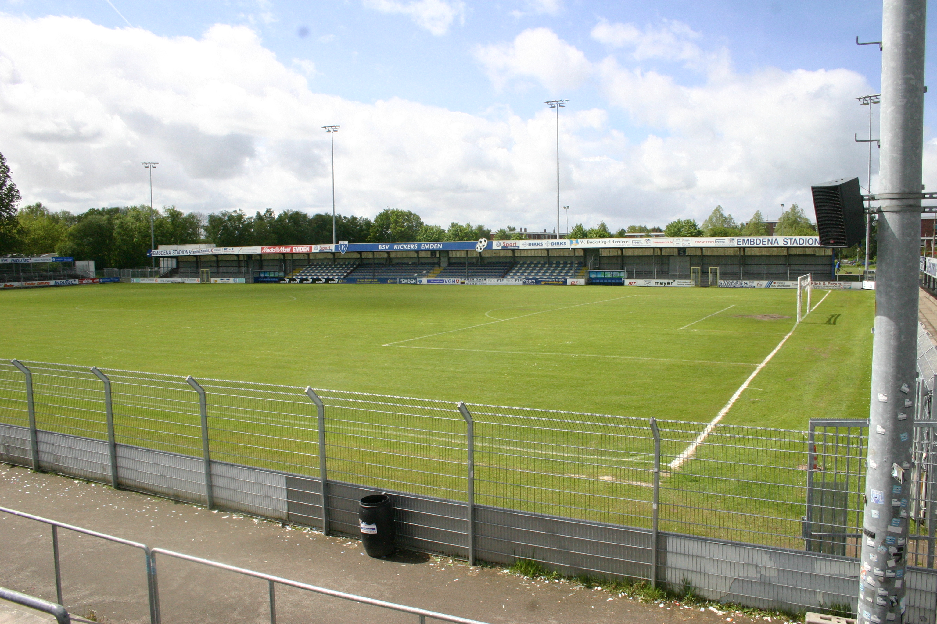 Main stand (west stand) of Embdena stadium, home of Kickers Emden (3rd football league), in Emden, Germany